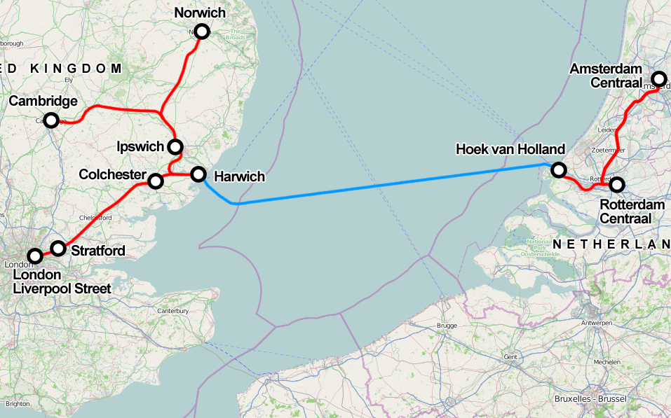 Map of the Dutch Flyer rail & sea route from the UK to the Netherlands over the North Sea Description This map may be incomplete, and may contain errors. Don't rely solely on it for navigation. AuthorOpenStreetMap contributorsDate (see file history)Sourceopenstreetmap.orgPermission(Reusing this file) OpenStreetMap data is available under the Open Database License (details). Map tiles are licensed under the Creative Commons Attribution-ShareAlike 2.0 license (CC-BY-SA 2.0). Contains map data © OpenStreetMap contributors, made available under the terms of the Open Database License (ODbL). The ODbL does not require any particular license for maps produced from ODbL data; map tiles produced by the OpenStreetMap foundation are licensed under the CC-BY-SA-2.0 licence, but maps produced by other people may be subject to other licences.Open Database LicenseODbL